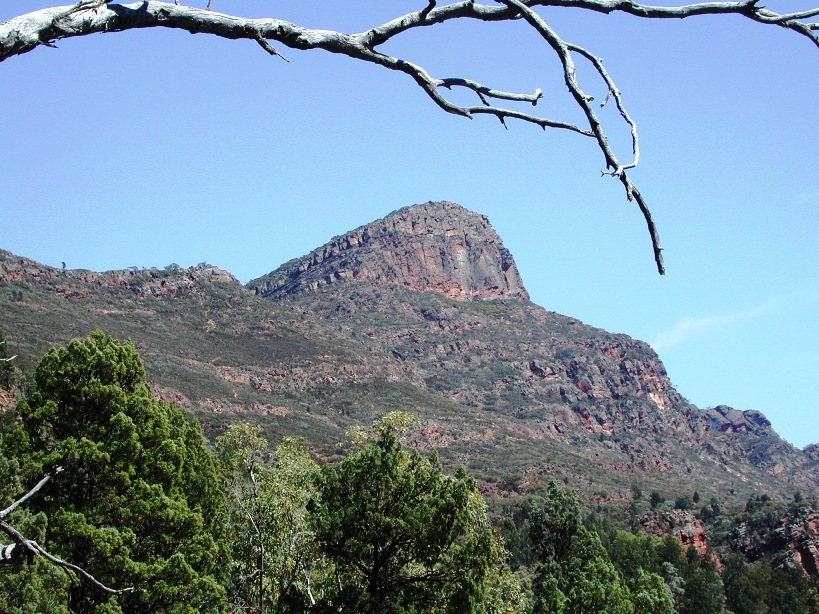 St Mary Peak close-up from from the ESE